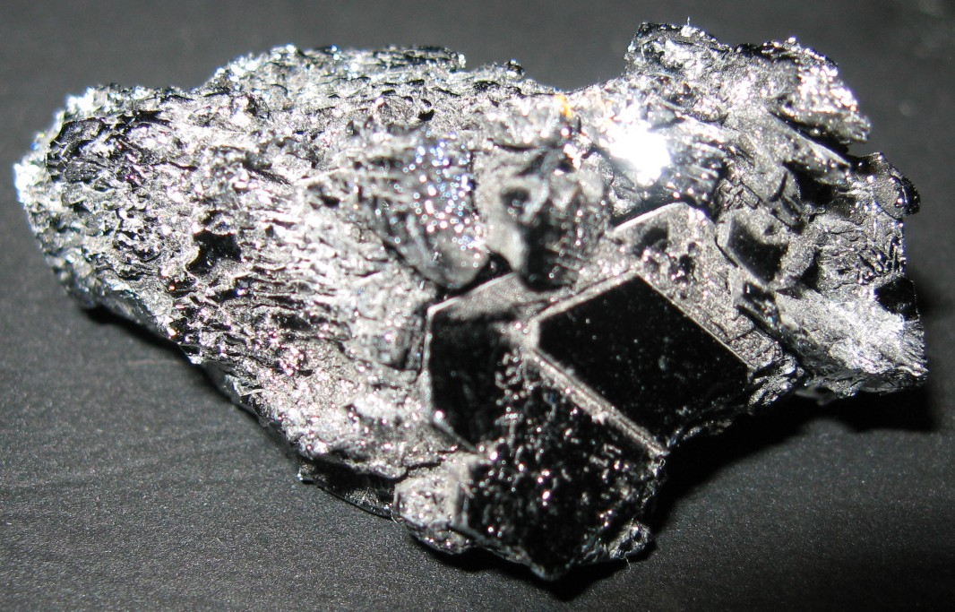 Hematite from Mount Vesuvius, Italy